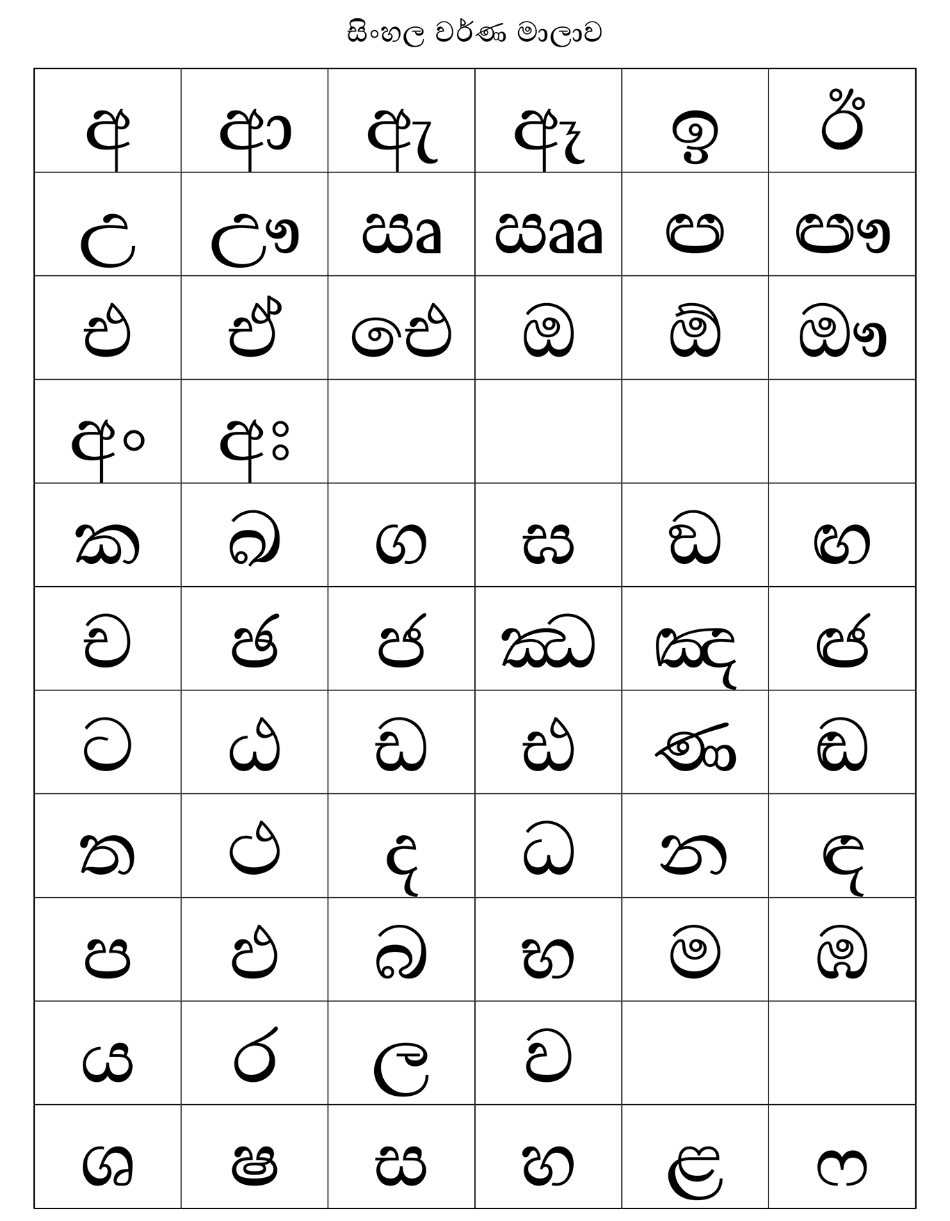 සිංහල: The official Sinhala alphabet after 1989; Designed using MS Word and Adobe Photoshop